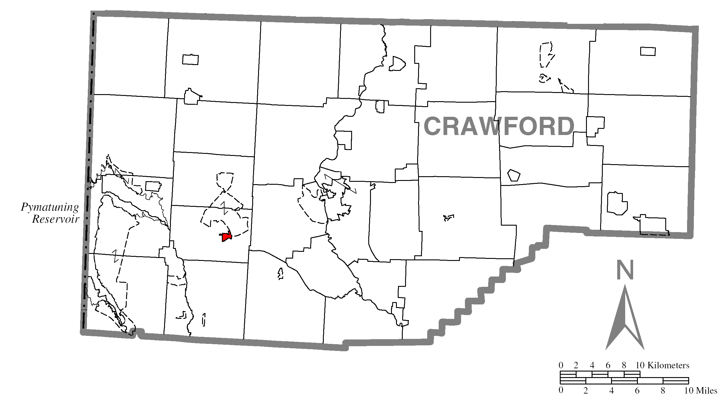 Map of Crawford County higlighting Conneaut Lake.